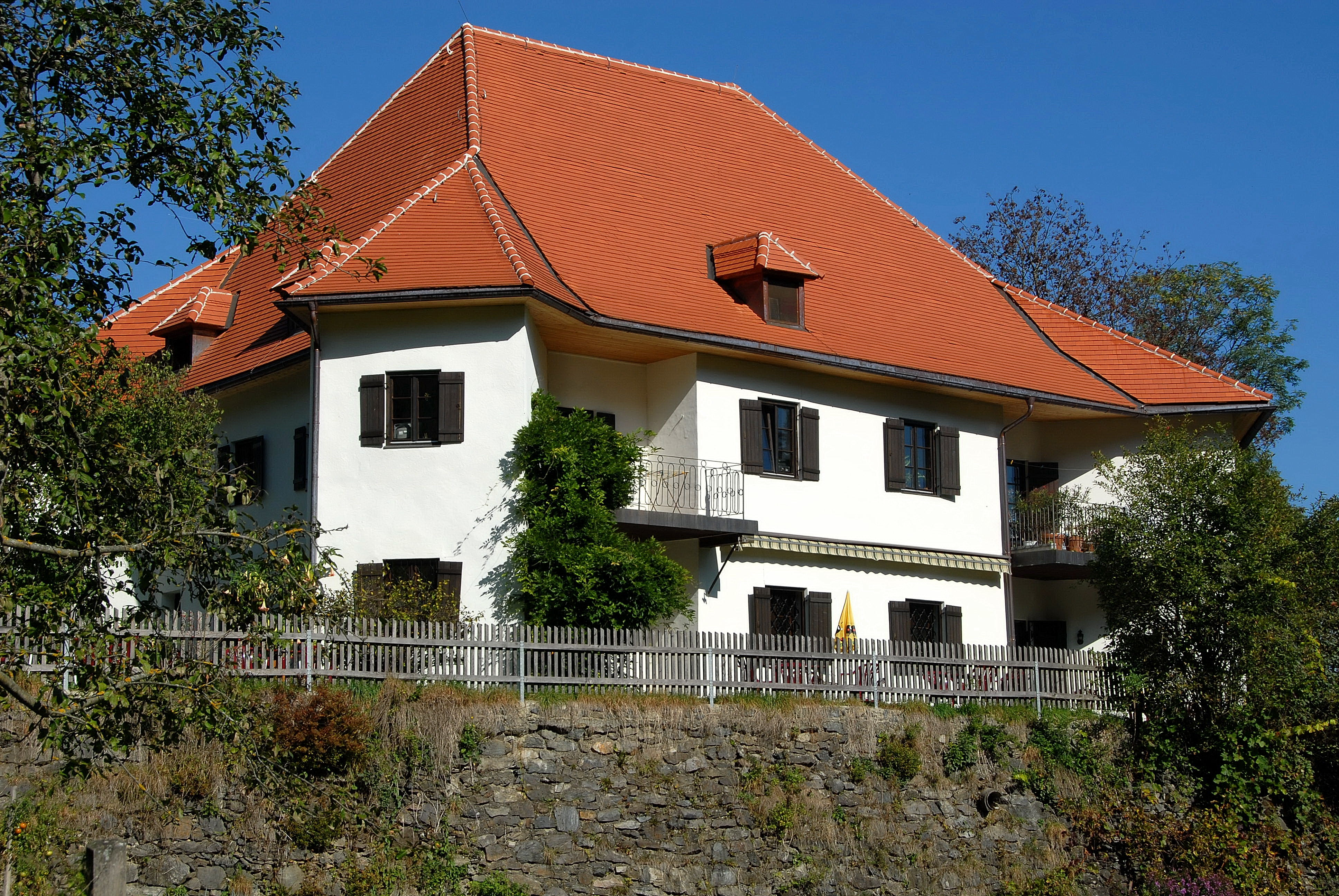 Castle Falkenberg in Waltendorf, 9th district "Annabichl" of the Carinthian capital Klagenfurt on the Lake Woerth, Carinthia, Austria, EU